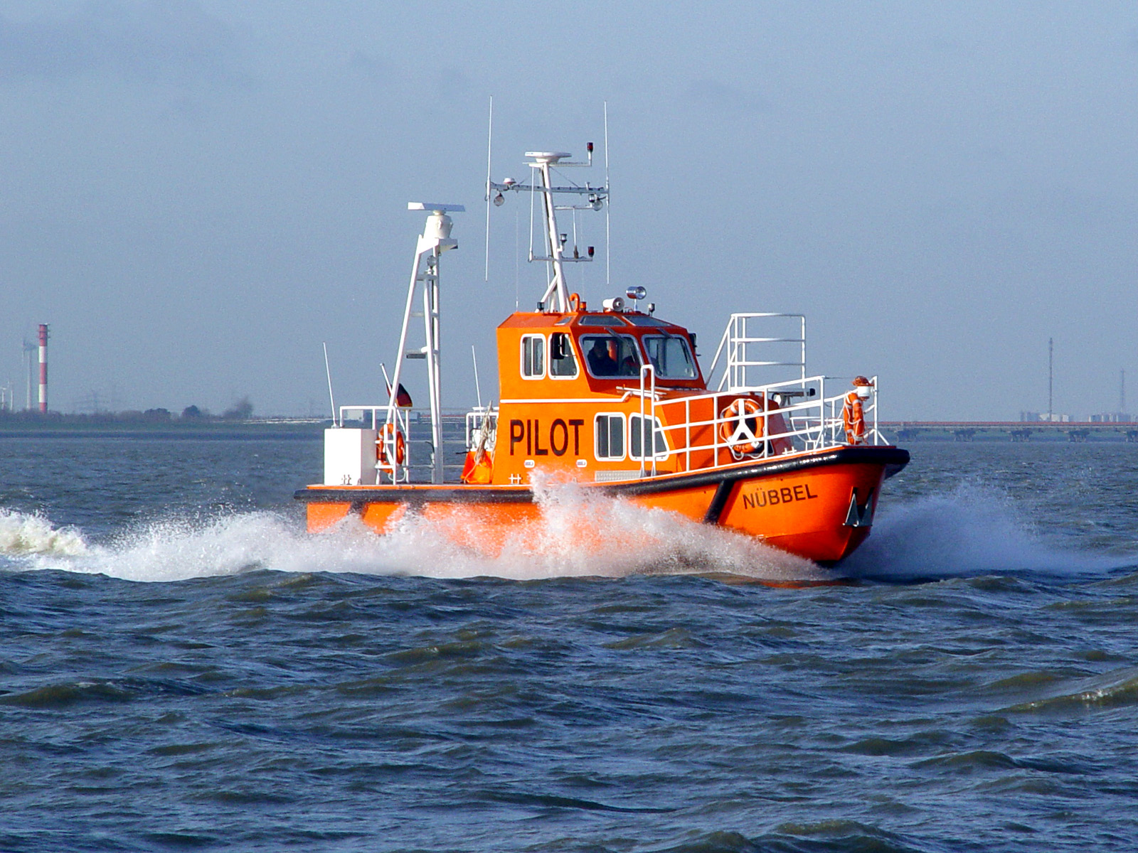 Fast Pilot Boat "Nübbel" on the Mouth of the River Jade. The boat is equipped with pfh hull shape.